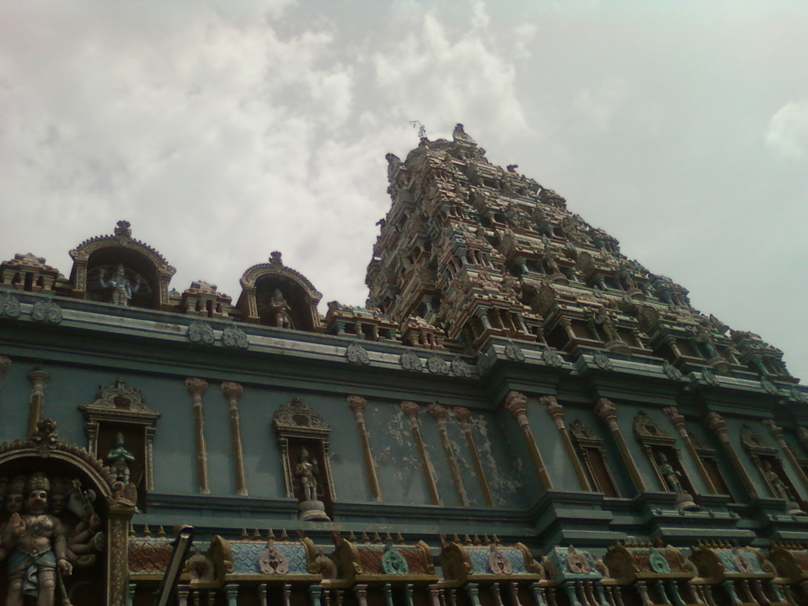 Anjaneya Swamy Temple, Ponnur, Guntur district